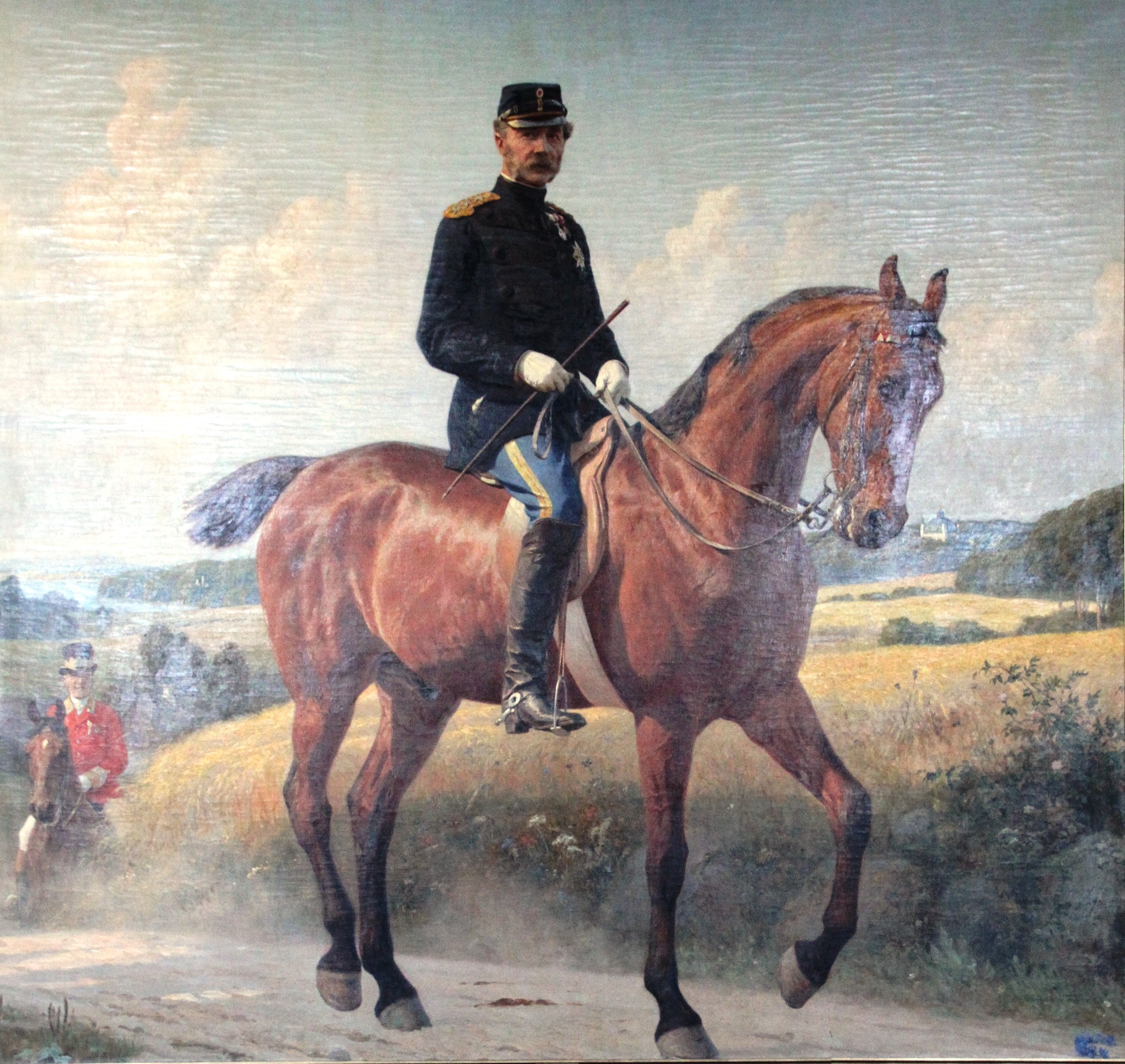 Painting by the artist Otto Bache, in Fredriksborg Castle museum exhitibtion, Sjælland - denmark.